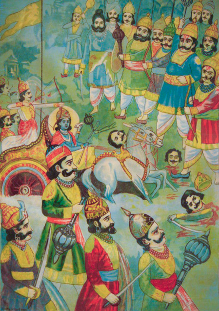 "Kaurava Pandava Yuddh," bazaar art from the 1920's